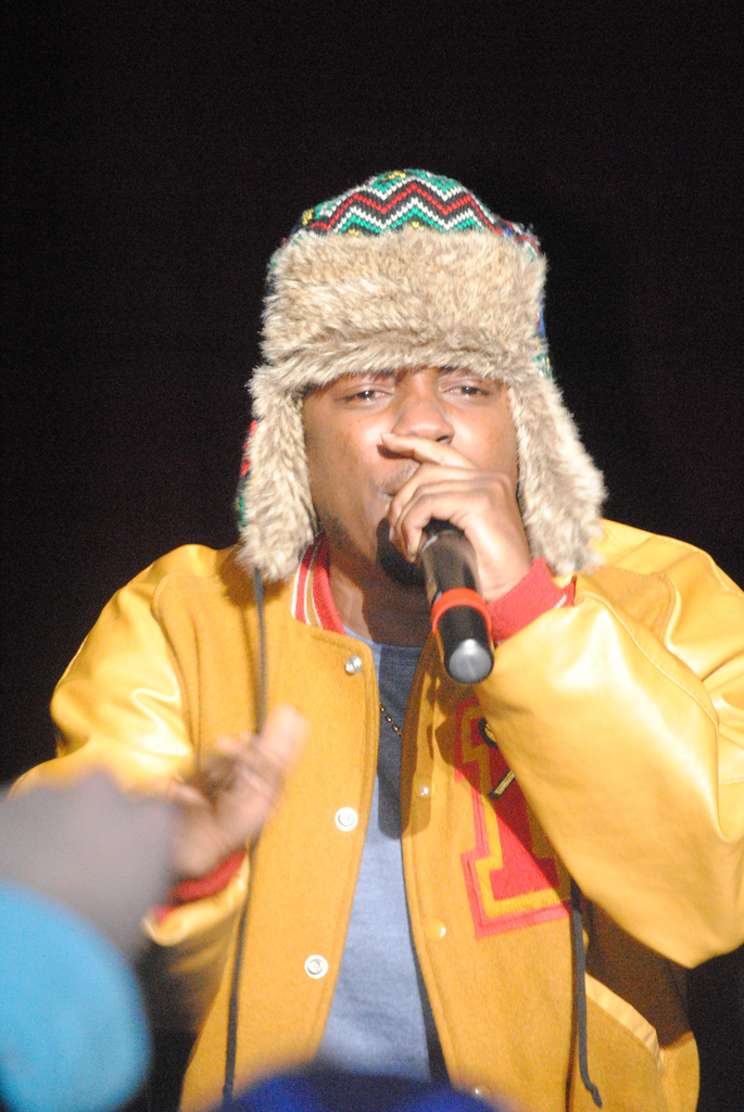 Kendrick Lamar at Michigan State University